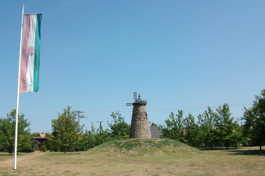 Geographical centre-point of Hungary before the Treaty of Trianon (1920), (Szarvas, Hungary)